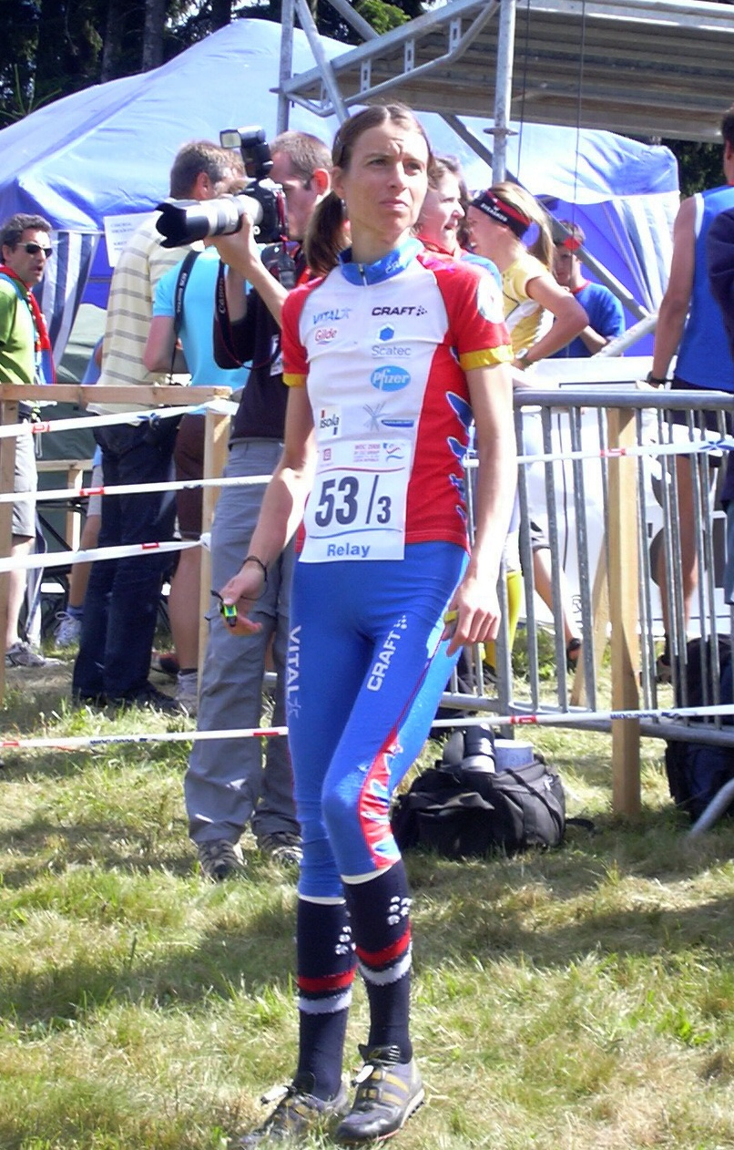 World Orienteering Championships 2008 in Olomouc, Czech Republic. On photo Anne Margrethe Hausken.